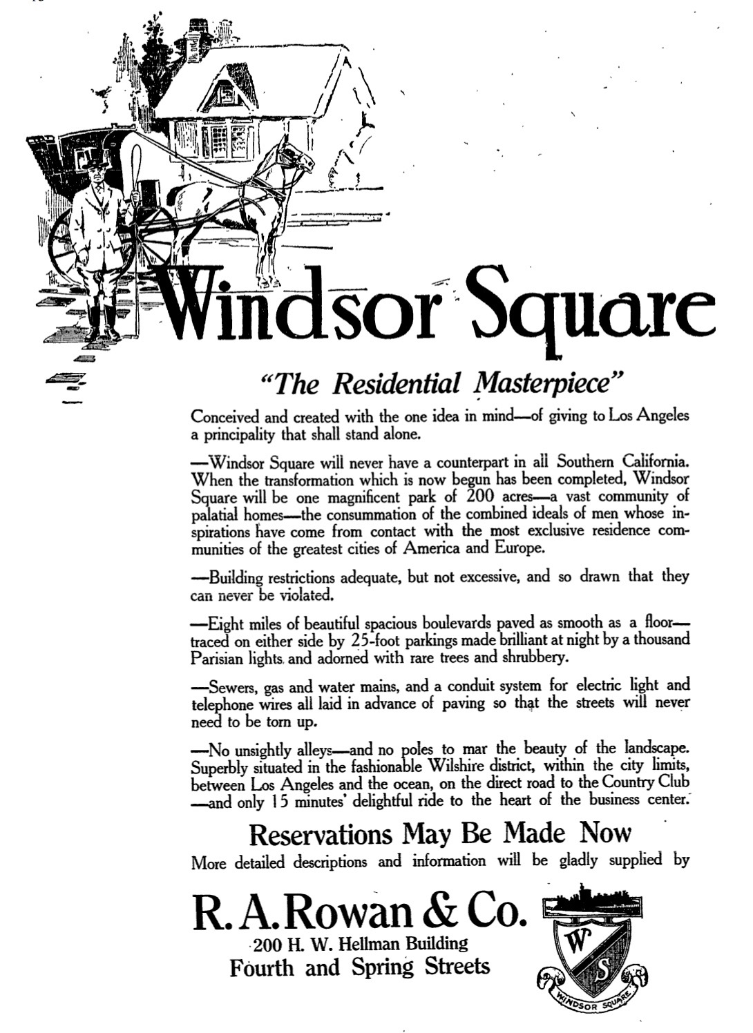 Advertisement from Los Angeles Times issue of September 22, 1911, describing the virtues of Windsor Square, a new subdivision on the west side of the city. Advert shows a drawing of a footman with a whip, a surrey (?) behind him, drawn by a horse, and a residence behind them.